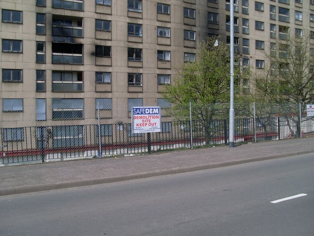 Demolition site at Red Road flats The front "slab"-styled flat is in the process of being demolished.